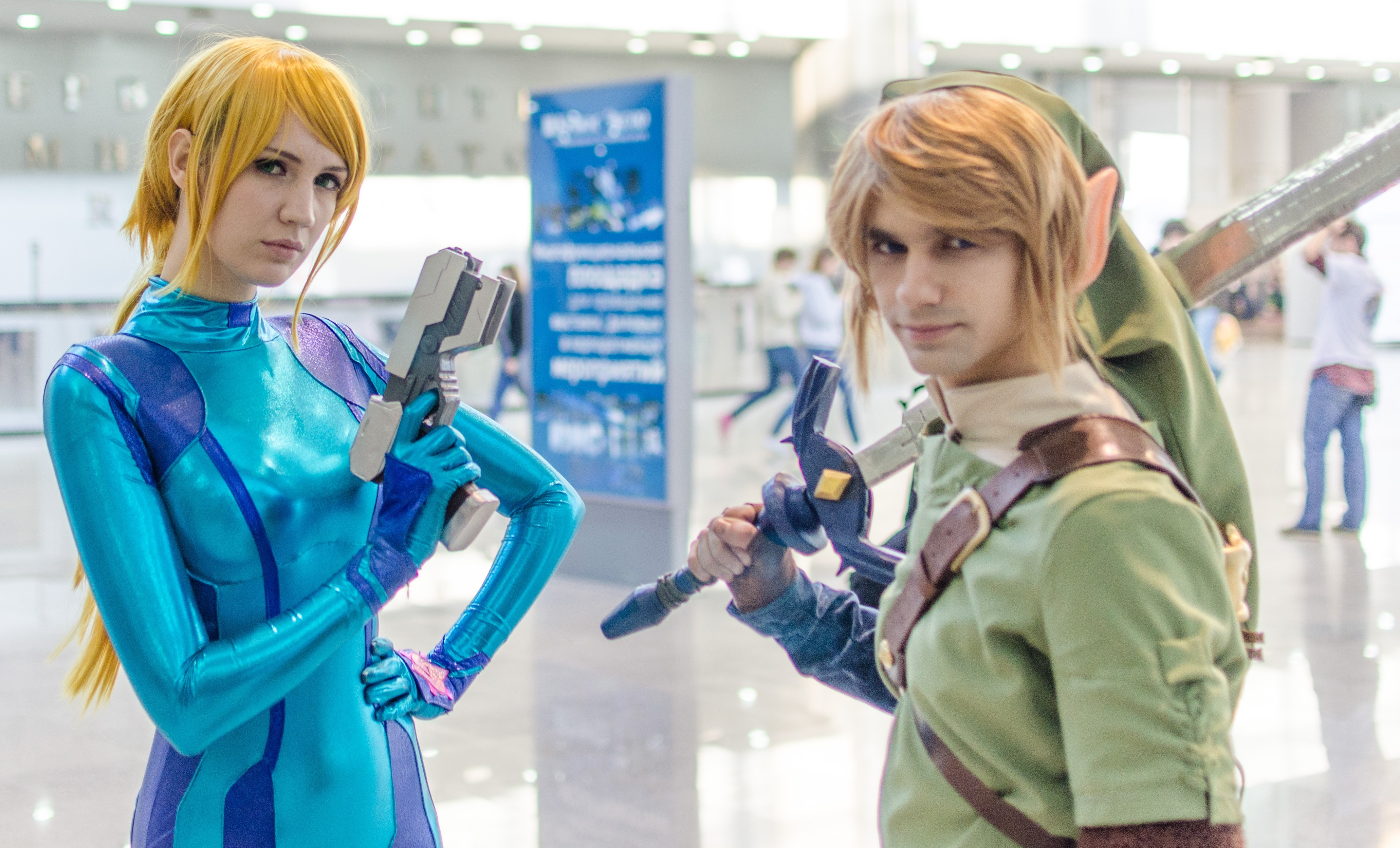 Taken on October 4, 2012 Nikon D5100